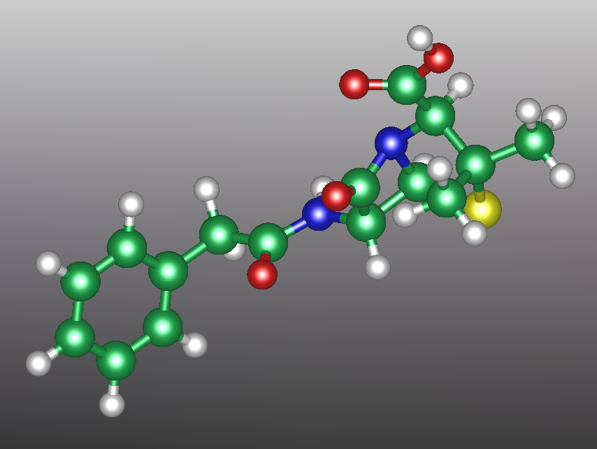 3D-model of benzylpenicillin